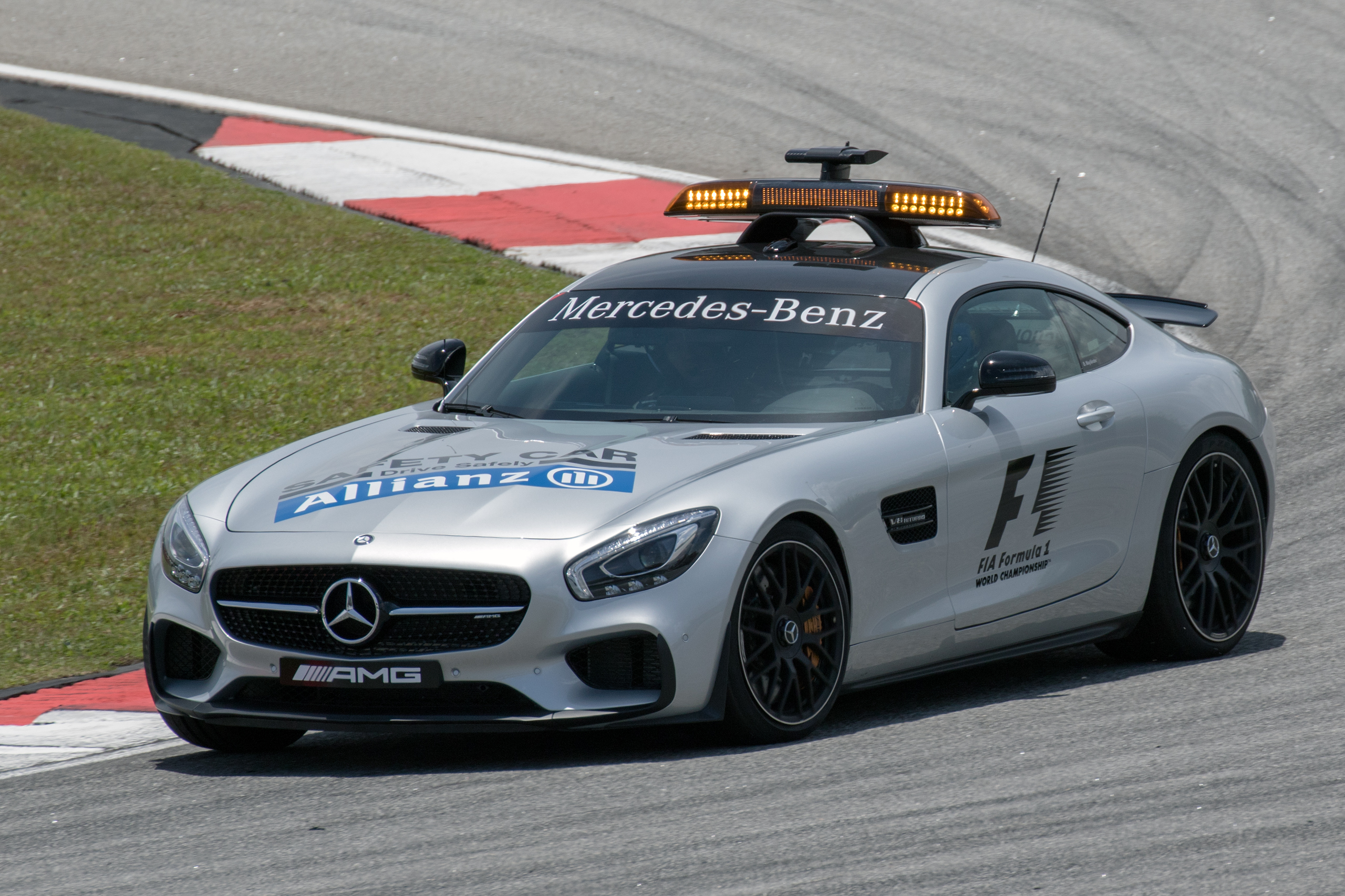 Formula One 2015 Rd.2 Malaysian GP: Mercedes-AMG GT S (C190) Safety Car